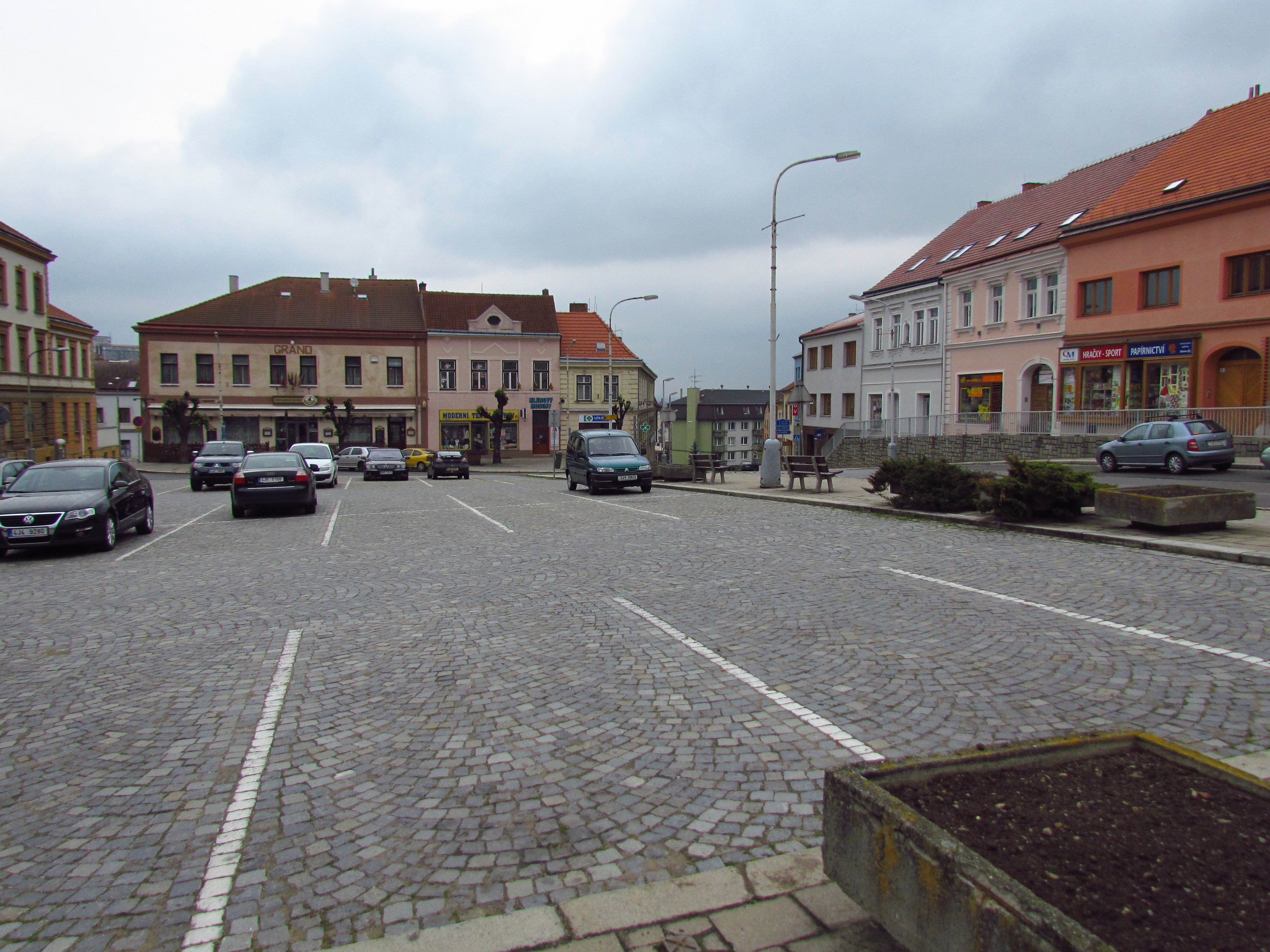 Square Míru in Moravské Budějovice, Třebíč District.